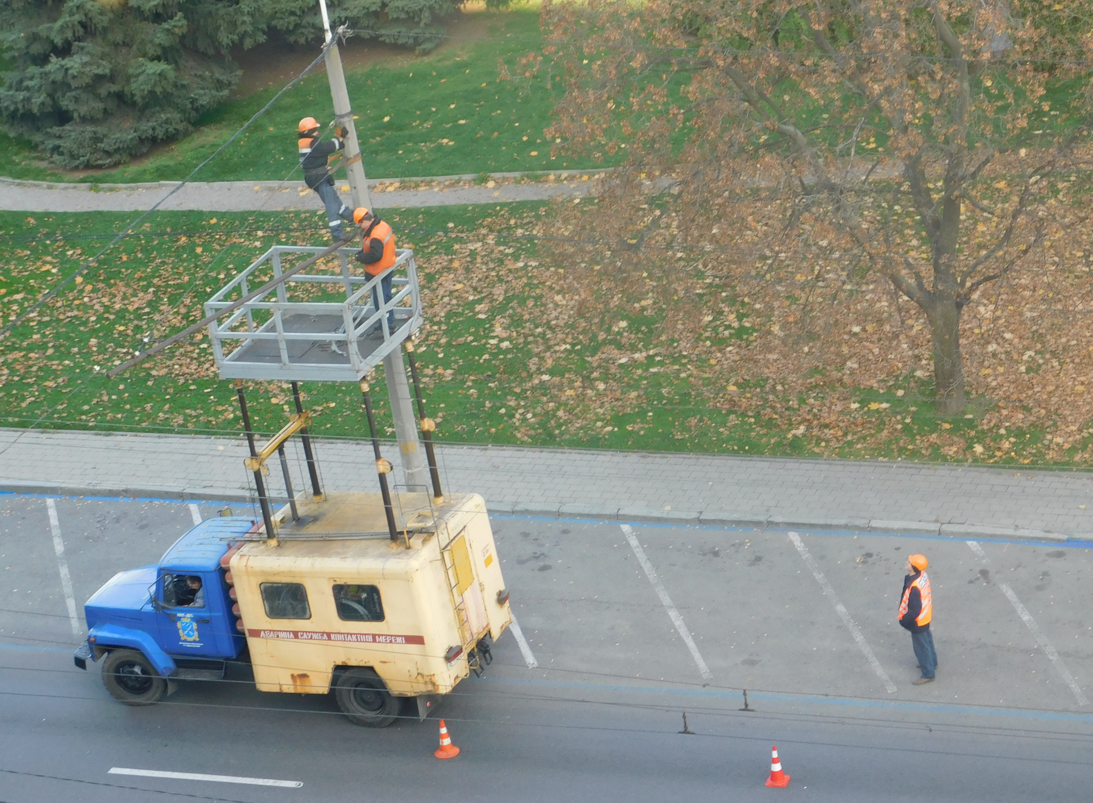 Repair truck parked during street light maintenance; 10.11.19